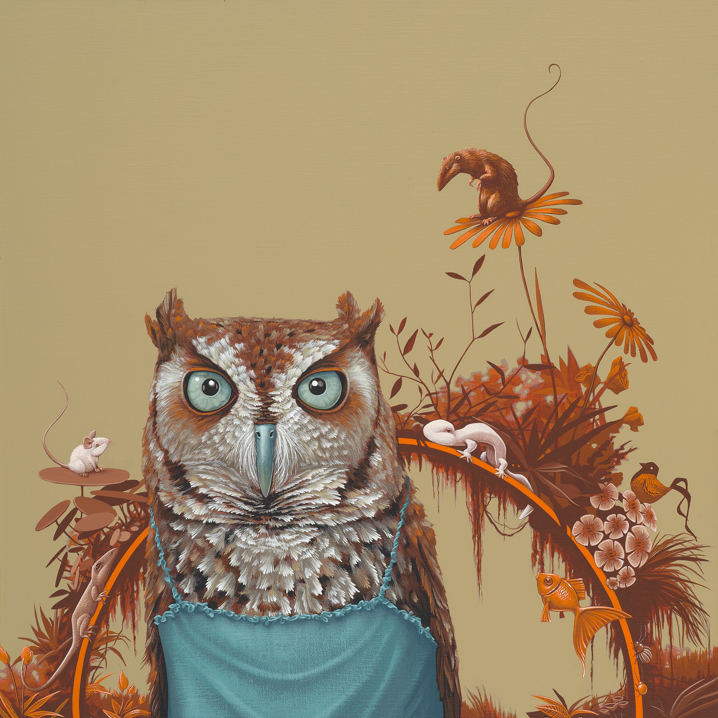 Northern Screech Owl